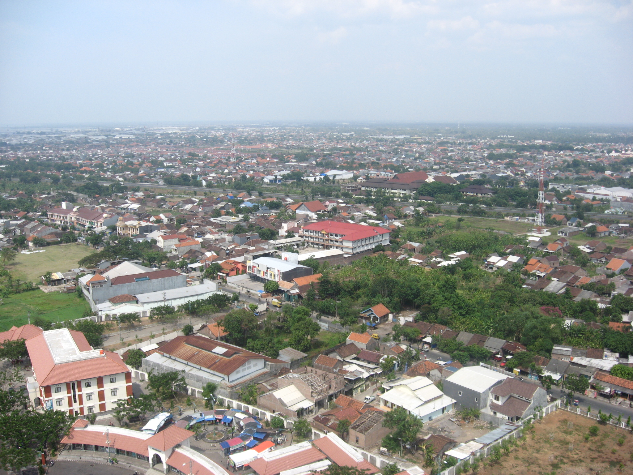 Aerial view of Semarang, Central Java, from the menara (tower) of the Grand Mosque.